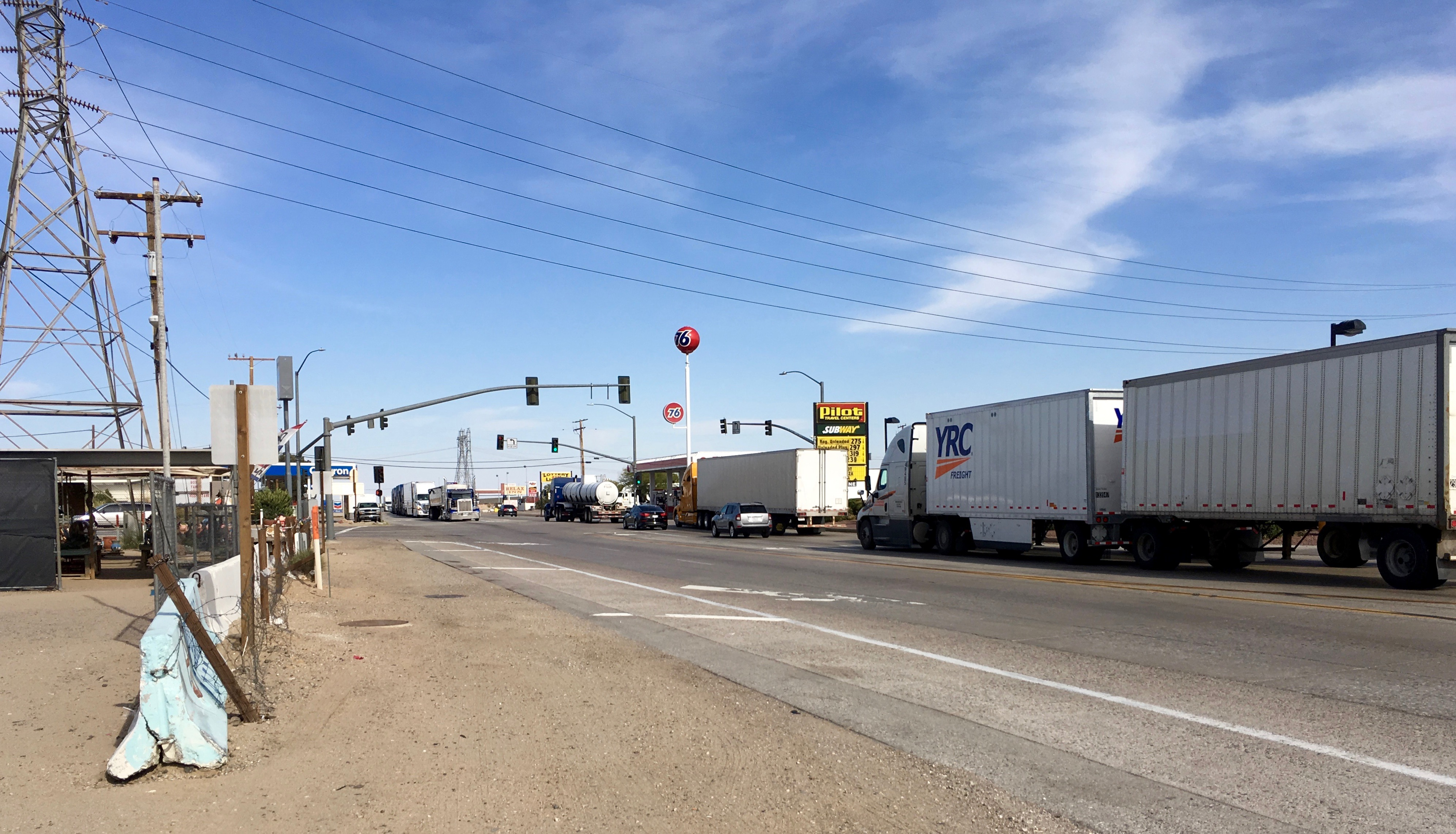 The very busy and noisy intersection at Kramer Junction